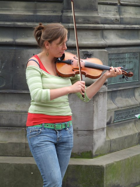 Busker outside St Giles Cathedral, Edinburgh. She's hoping to raise enough cash to go around the world.